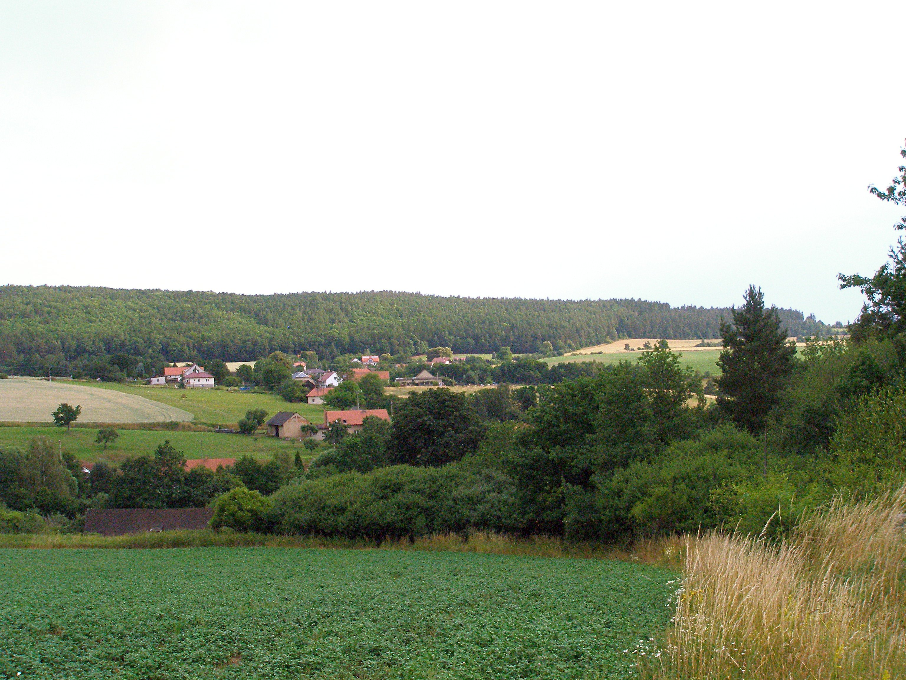 Senešnice - the general view from the south